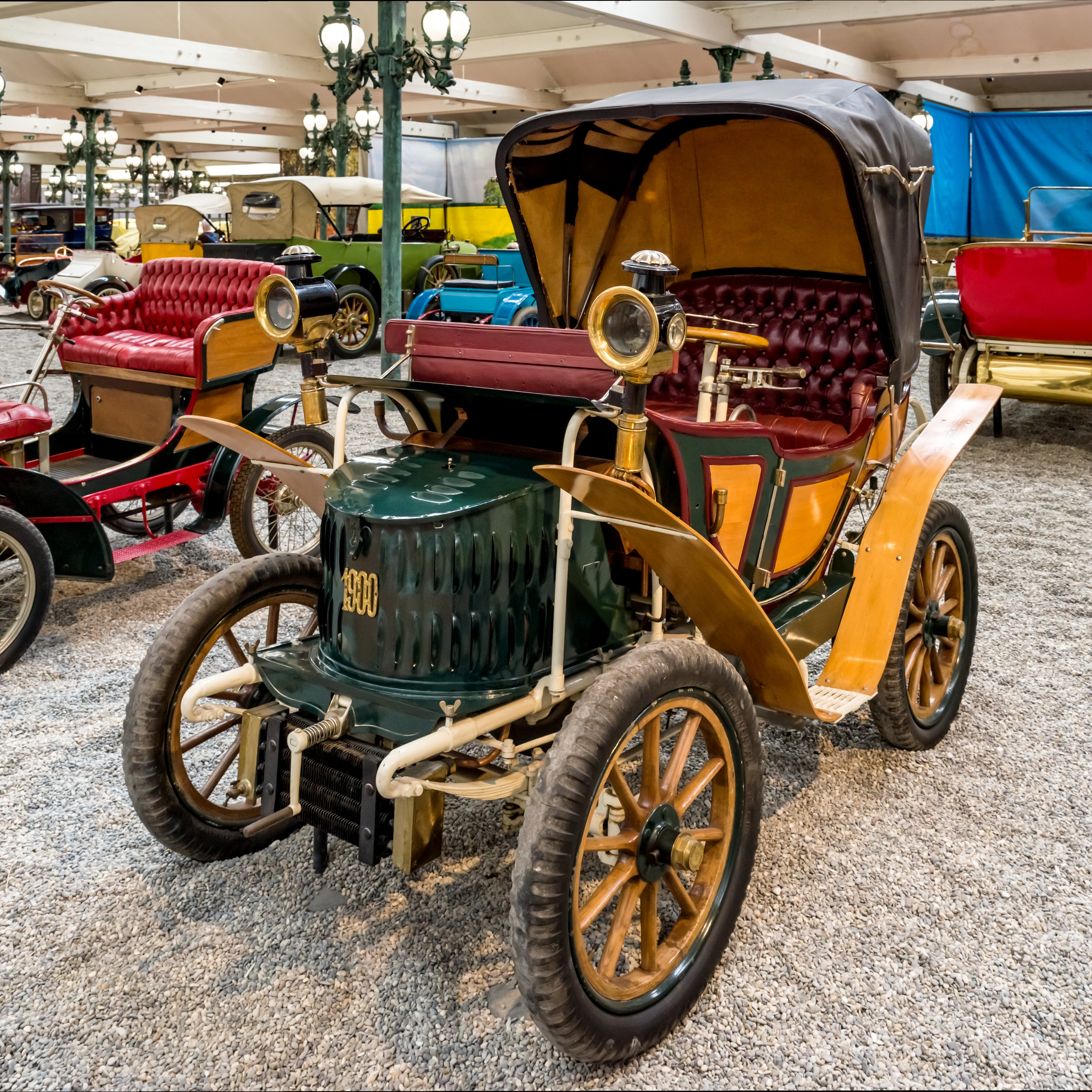 pictures from the Cité de l’Automobile – Musée National – Collection Schlump in Mulhouse, France ptictures from the 10. may 2018